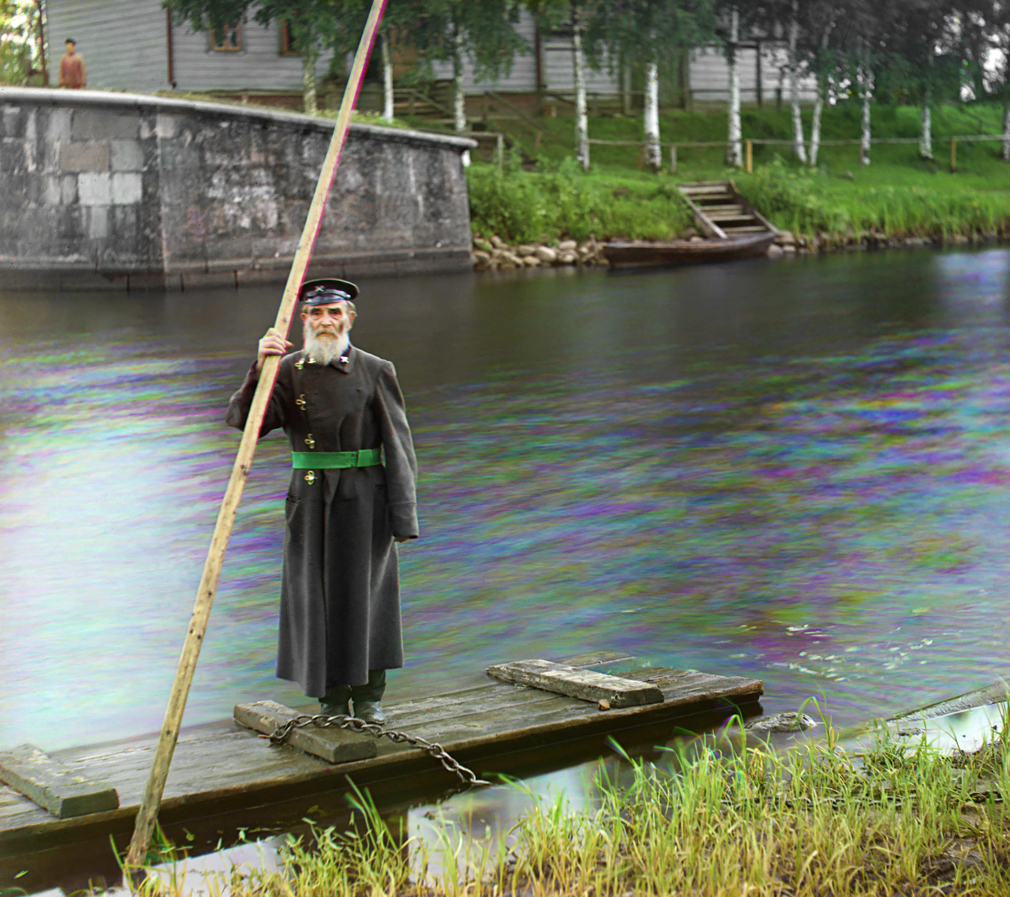 Pinkhus Karlinskii. Eighty-four years [old]. Sixty-six years of service. Supervisor of Chernigov floodgate. [Russian Empire].